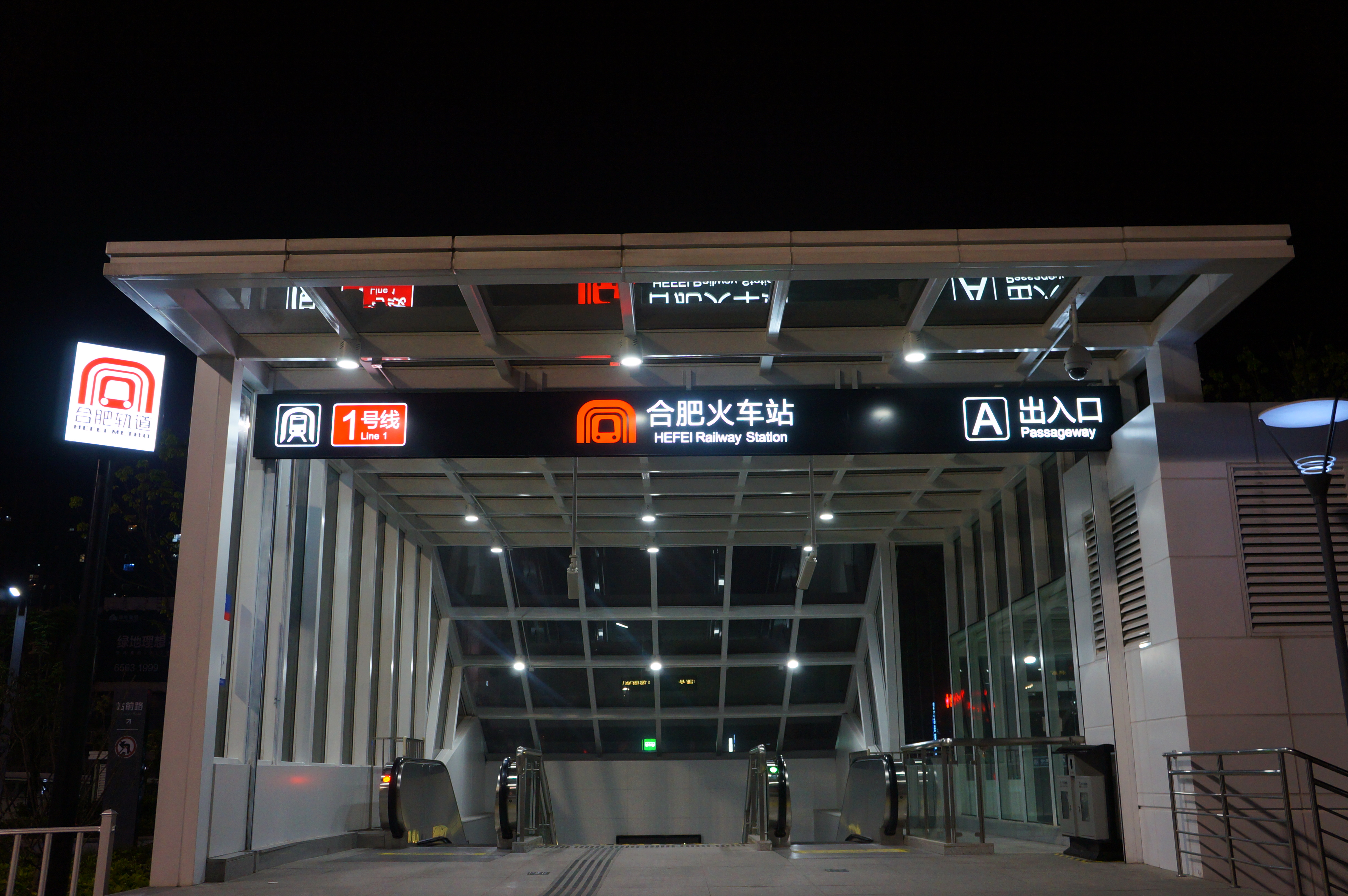 201705 Exit A of Hefei Railway Station Metro. The Exit Section in Wikipedia for HFM could definitely follow the MTR Style.